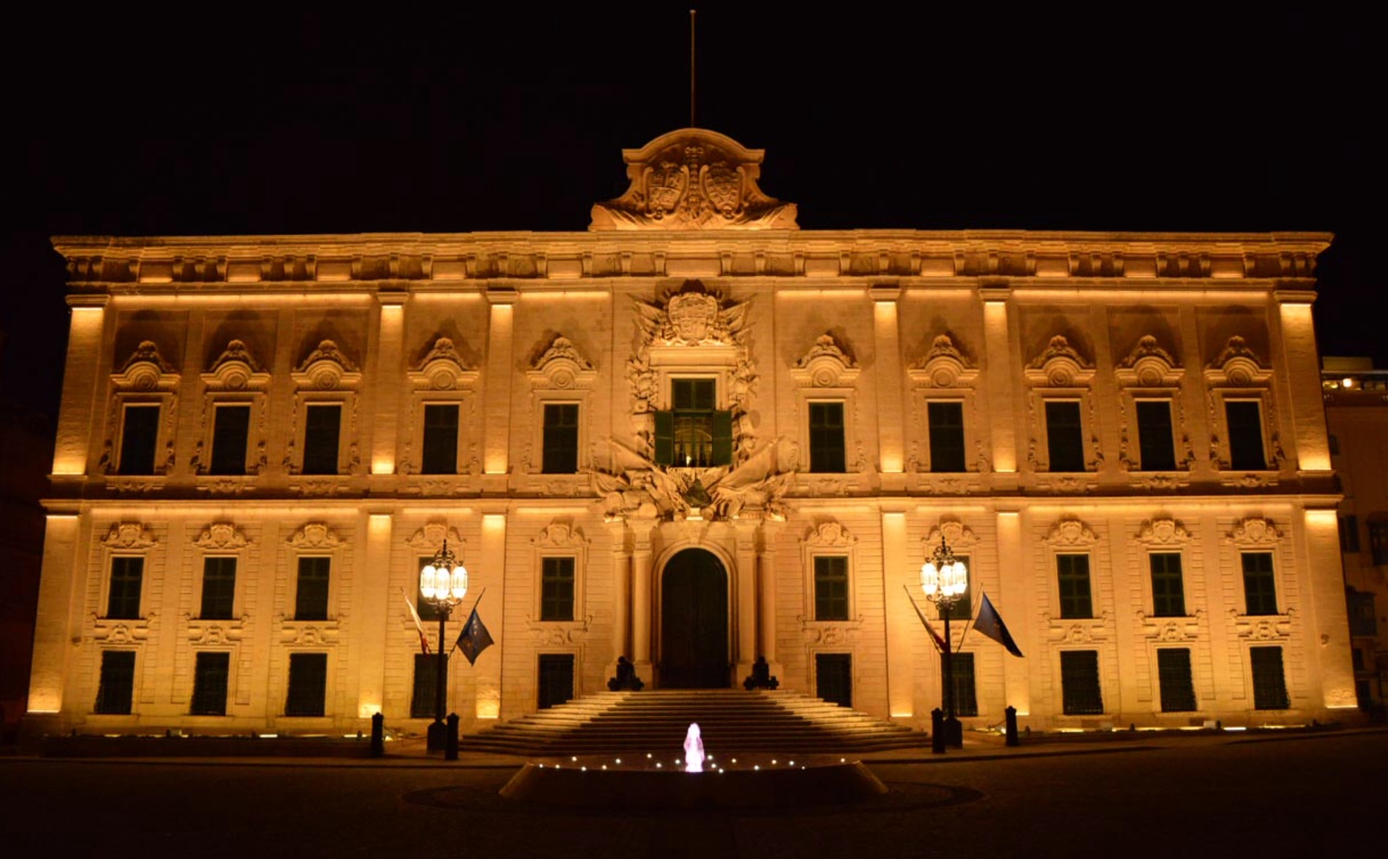 Auberge de Castille at night